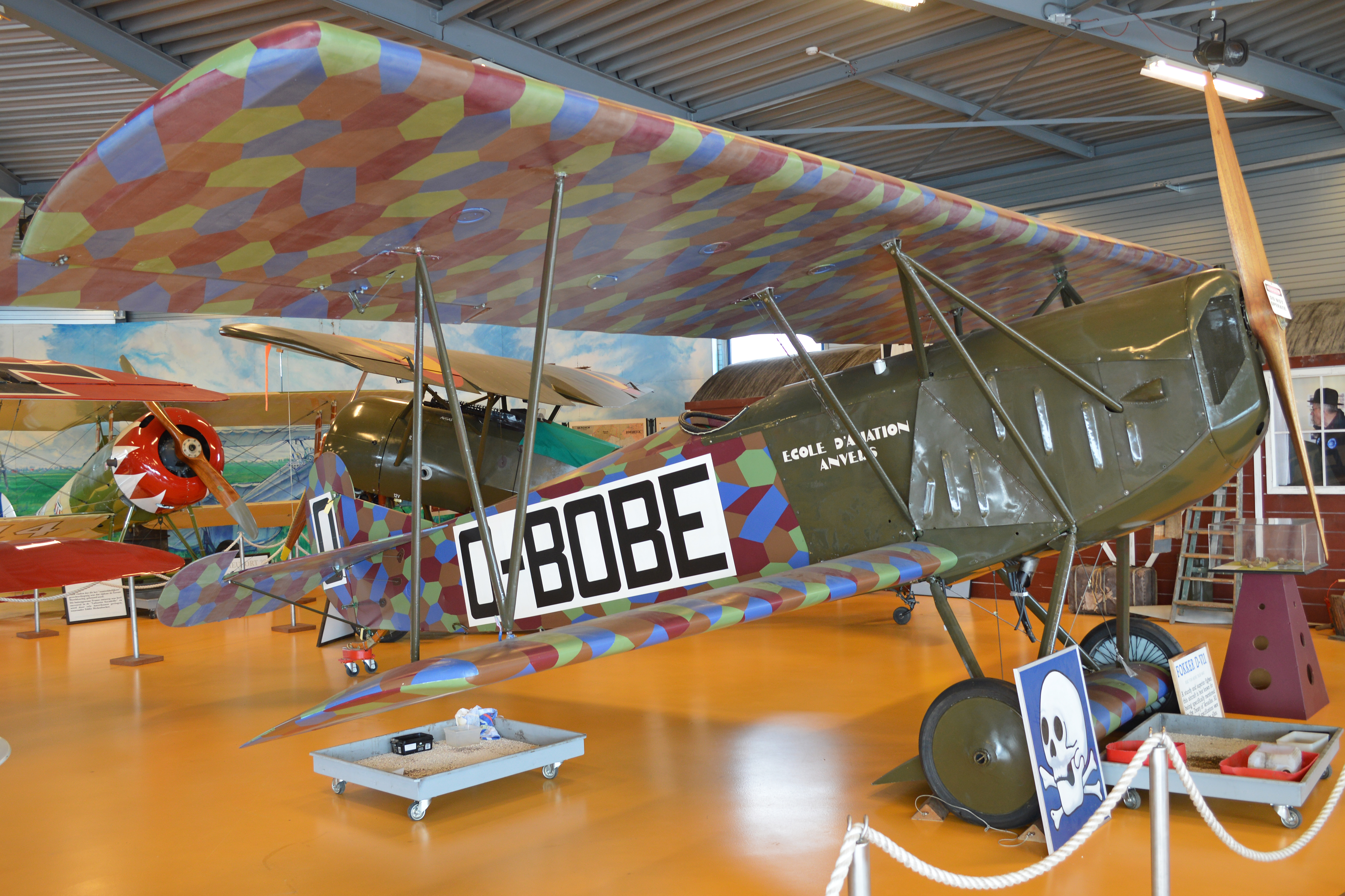 c/n 02. Full scale airworthy replica built in France in 1958 and powered by a de Havilland Gipsy III engine. It was used in filming the movie ‘The Blue Max’ which took place in Ireland with the aeroplane registered as EI-APT. It was later registered as N903AC in the United States before moving to Belgium in 2000. It is now in the post WW1 Belgian civil markings of the Jean Stampe flying school and is on display at the Stampe & Vertongen Museum, Antwerp Airport, Belgium. 26th June 2016